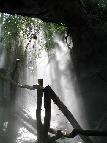 Congo Gorilla Forest at Bronx Zoo.